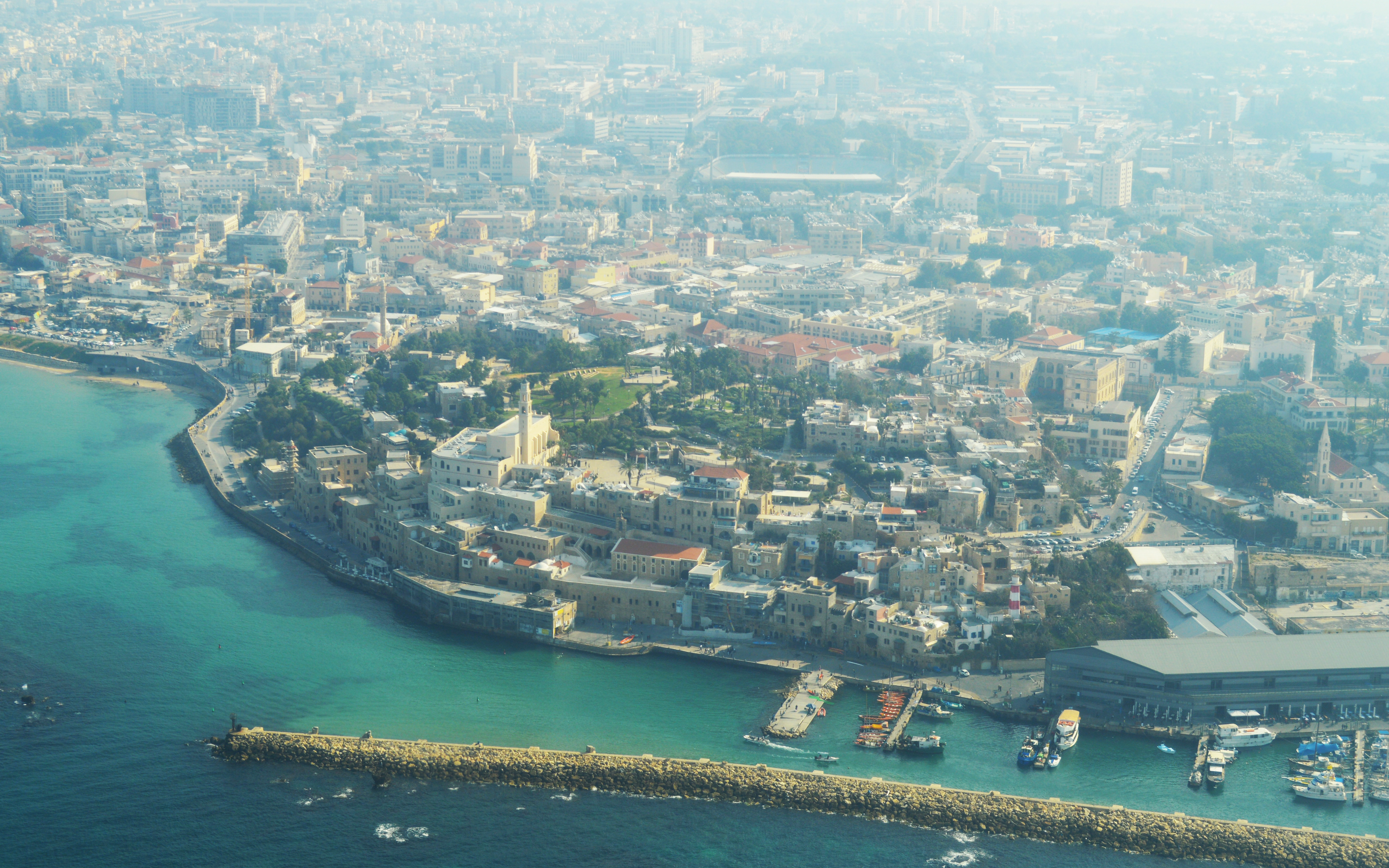 Jaffa Old City Aerial View